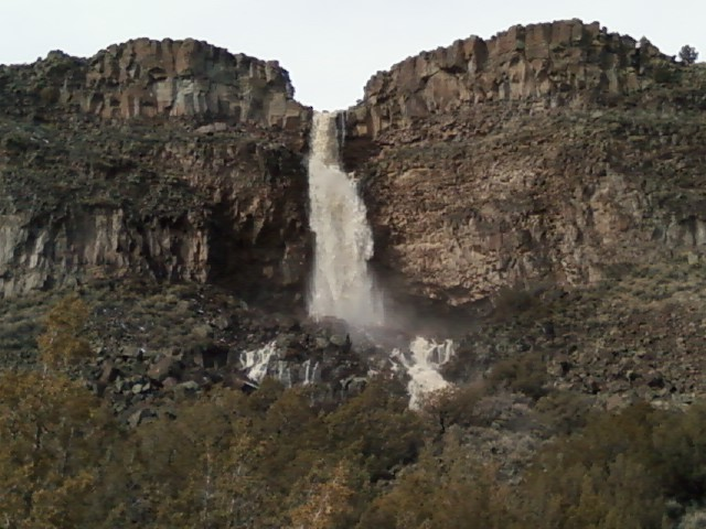 Summary Description=Temporary wet-weather waterfall near Carson, New Mexico Date=? Source= Author=Gregory L. Busick Permission= see below